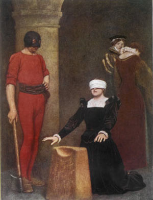 MARY QUEEN OF SCOTS ABOUT TO BE EXECUTED AT FOTHERINGAY